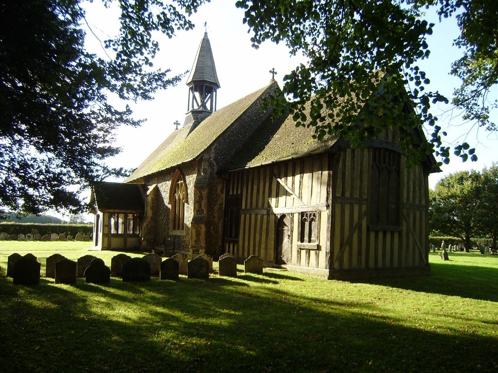 All Saints Church Crowfield, Suffolk. A Sunny day in early October 2012 at 3pm. All Saints is unique having the only timber framed chancel in Suffolk, which was erected in the 15th century as an extension to the 14th century nave.